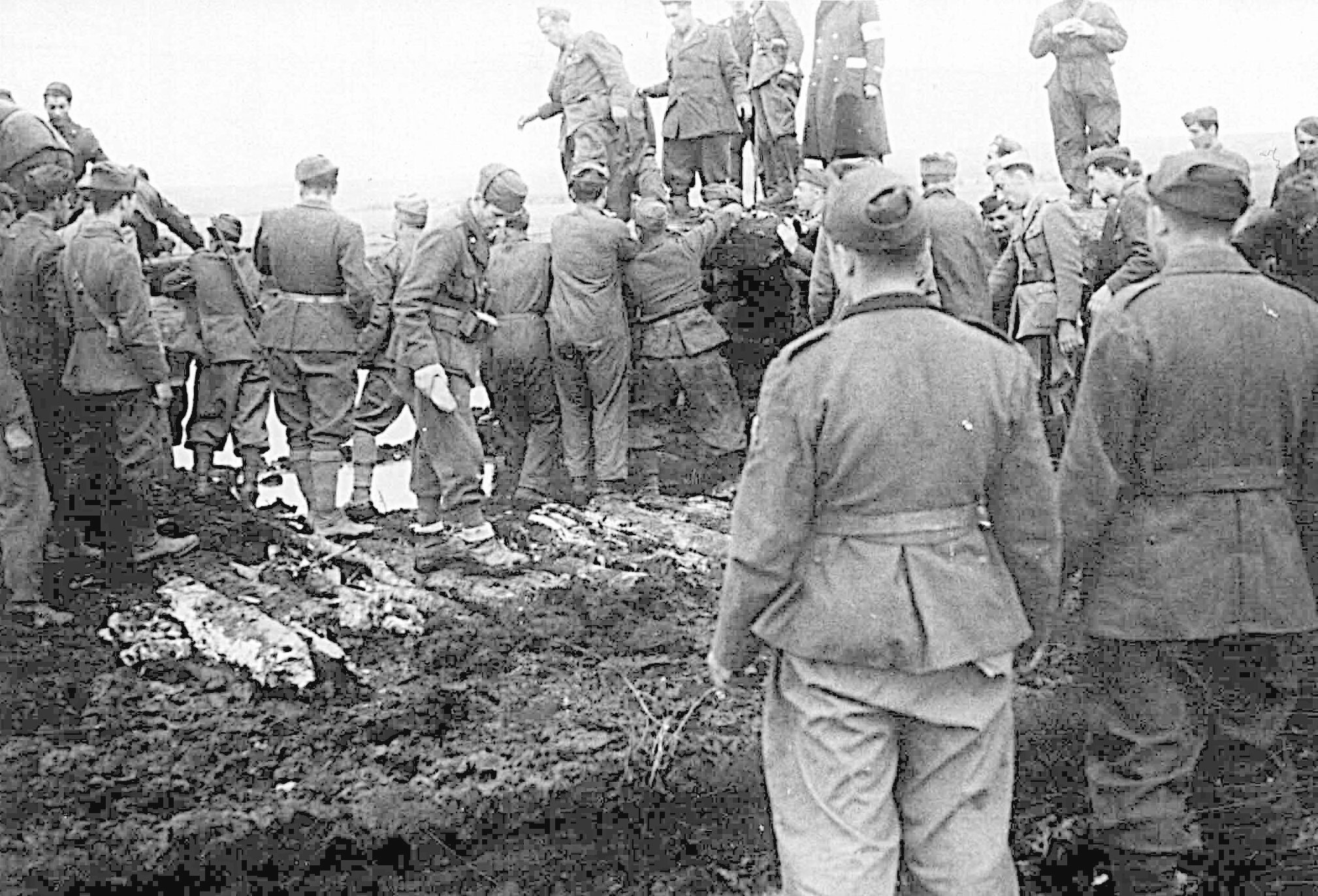 Italians repairing a road during the Second Battle of Kharkov after Soviet bombing